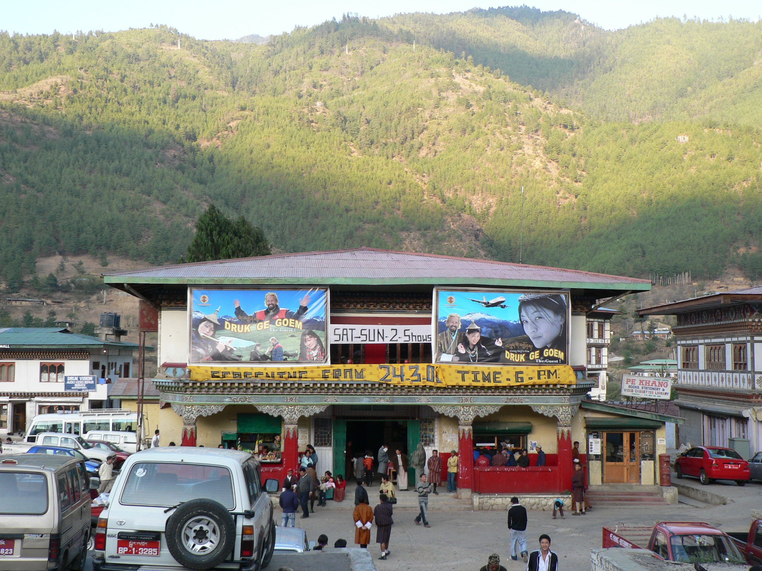 The Lugar Cinema Hall, Nordzin Lam, Thimphu